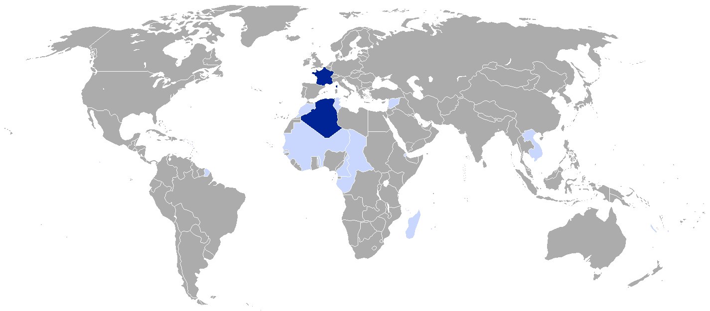 This map depicts the territorial situation of France subsequent to the 1939 Invasion of Poland. Dark blue: French Republic Light blue: Colonies, mandates, and protectorates of France.